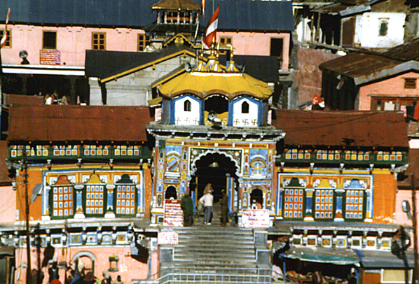 Badrinath Temple. Photo taken by Priyanath.